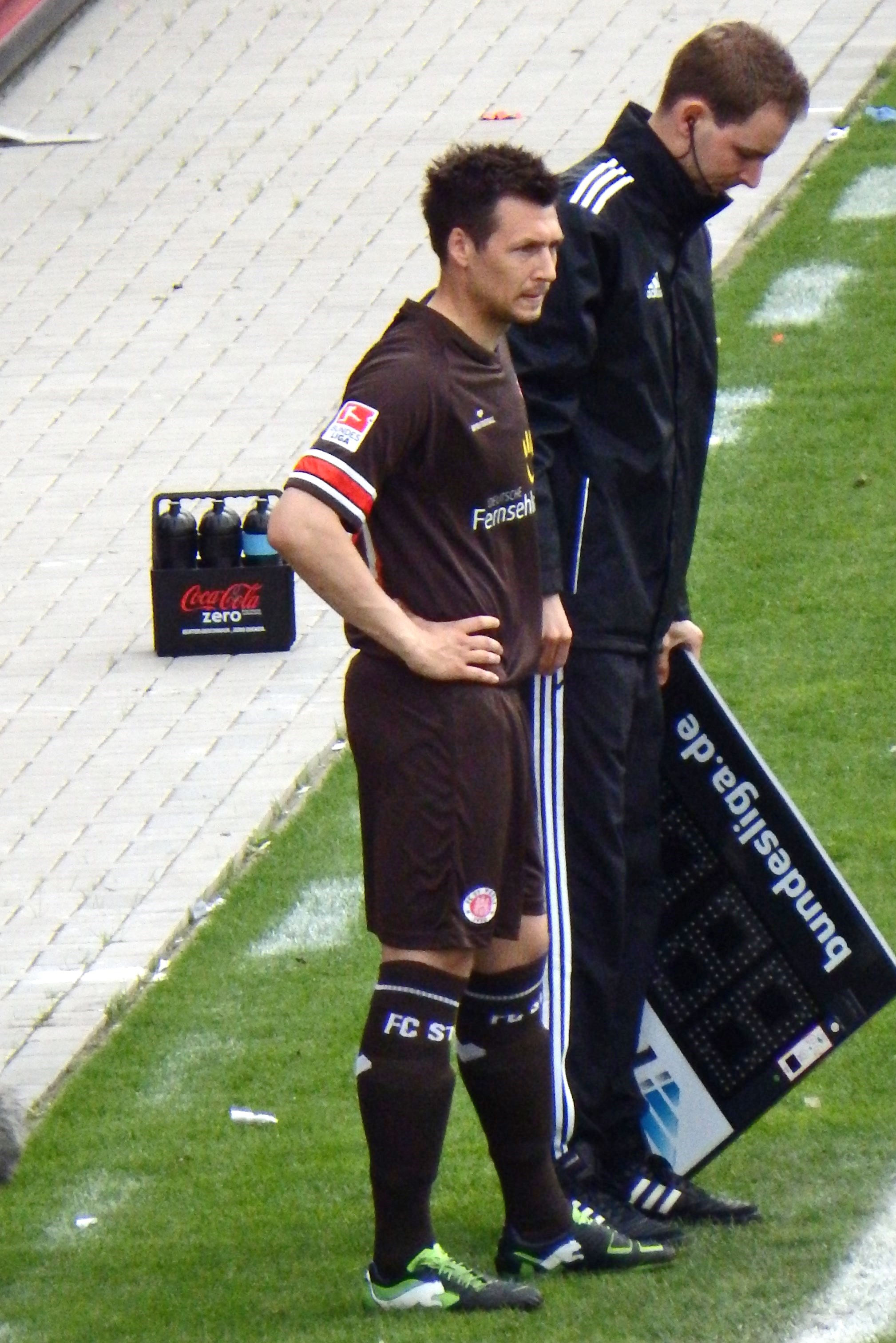 Sören Gonther as Player from FC St. Pauli